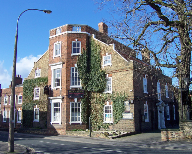 The Exchange, Bigby Street, Brigg. Pevsner says "Nos. 11-12 (THE EXCHANGE) is quite a grand mid-Georgian town house (c.1762): a tall central canted bay with, to l. and r., side pieces, their roofs rising in steps towards the highest bay. A side entrance has Doric columns with bands of stalactite rustication.". For a photo of the side entrance see 359284.